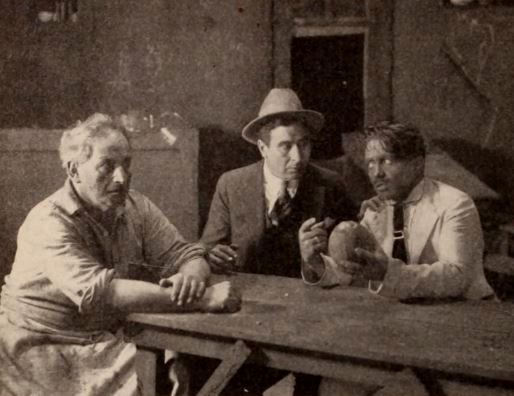 Still from the American drama film serial The Mystery Mind (1920) with Edward Elkas, Paul Panzer, and Arthur Pierot, on page 50 of the January 24, 1920 Exhibitors Herald.